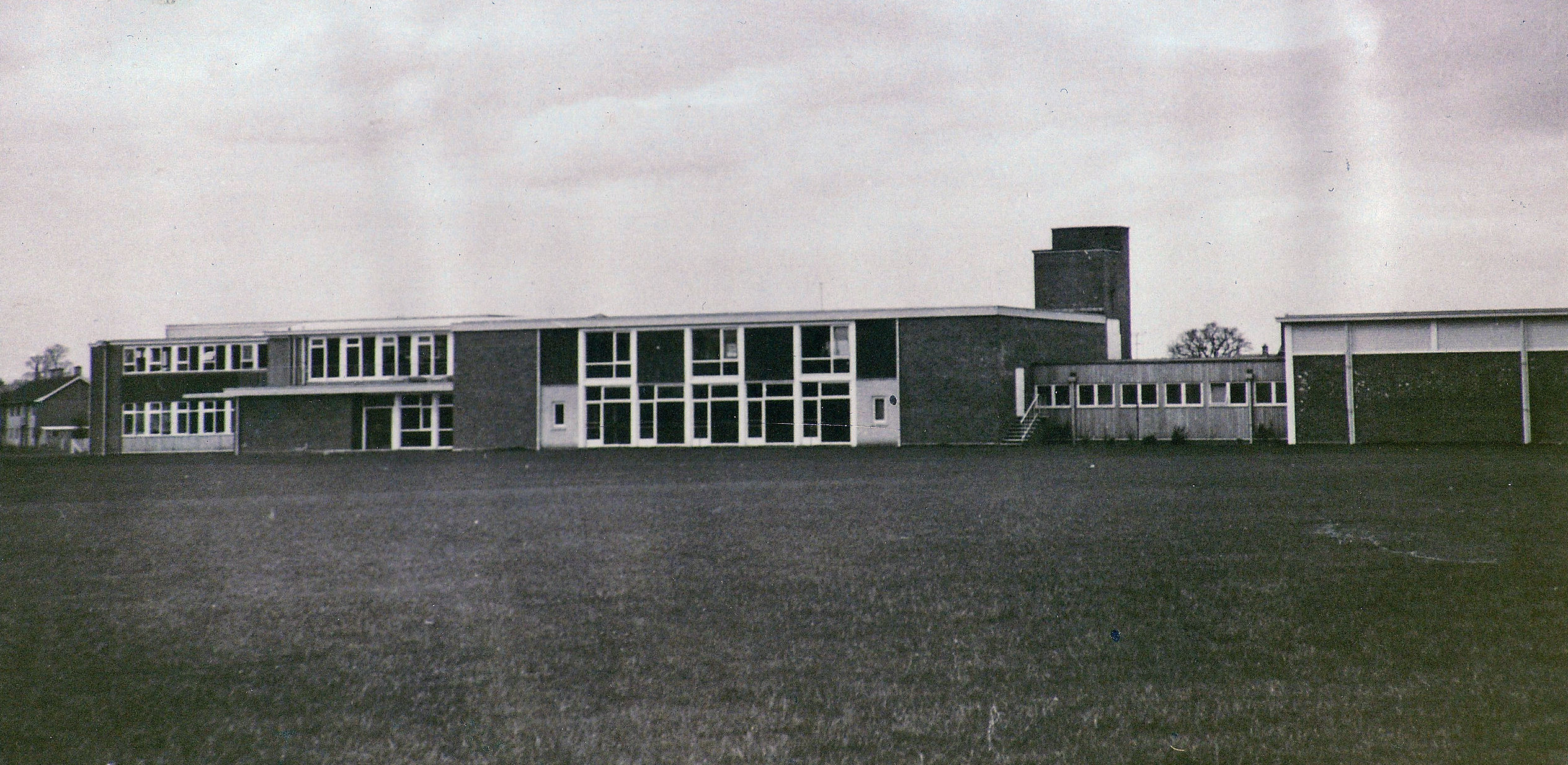 The former Heron Wood County Secondary School for Boys (later the Connaught School and Alderwood Senior School) in Aldershot in Hampshire photographed in 1970